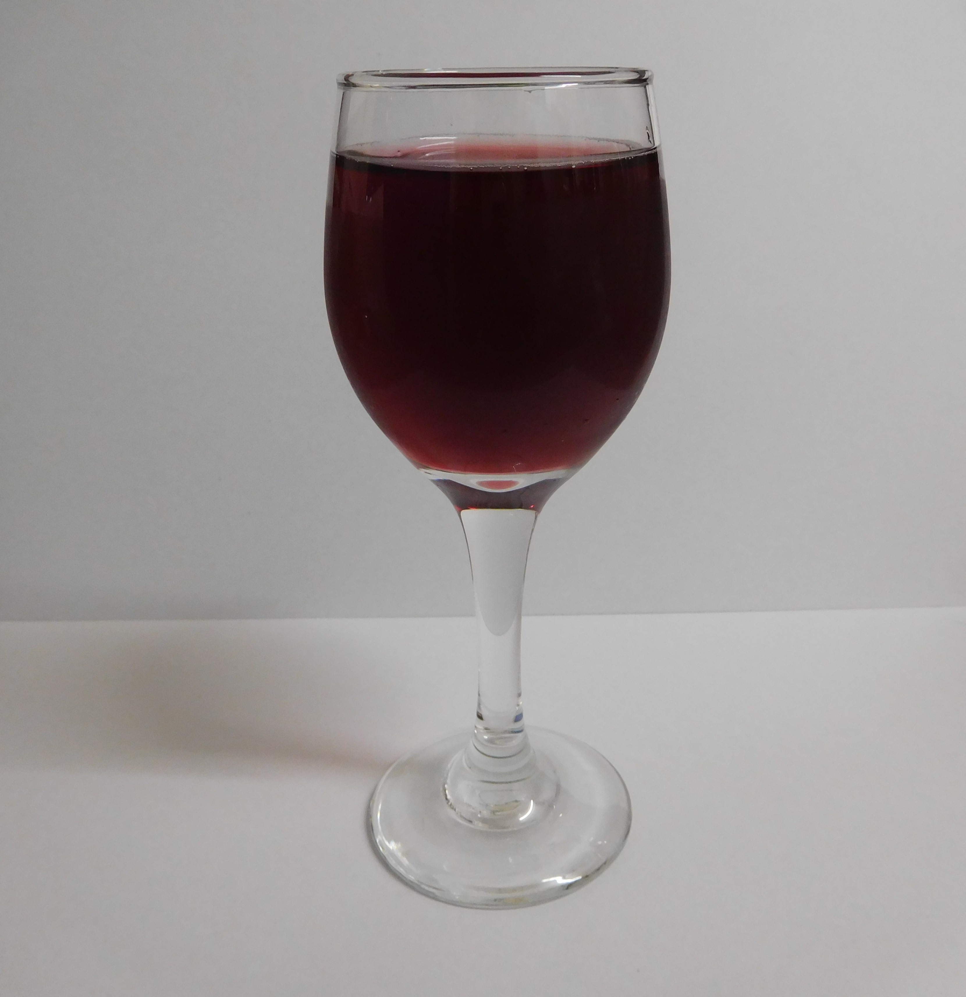 This is a wine-based cocktail "Kitty".